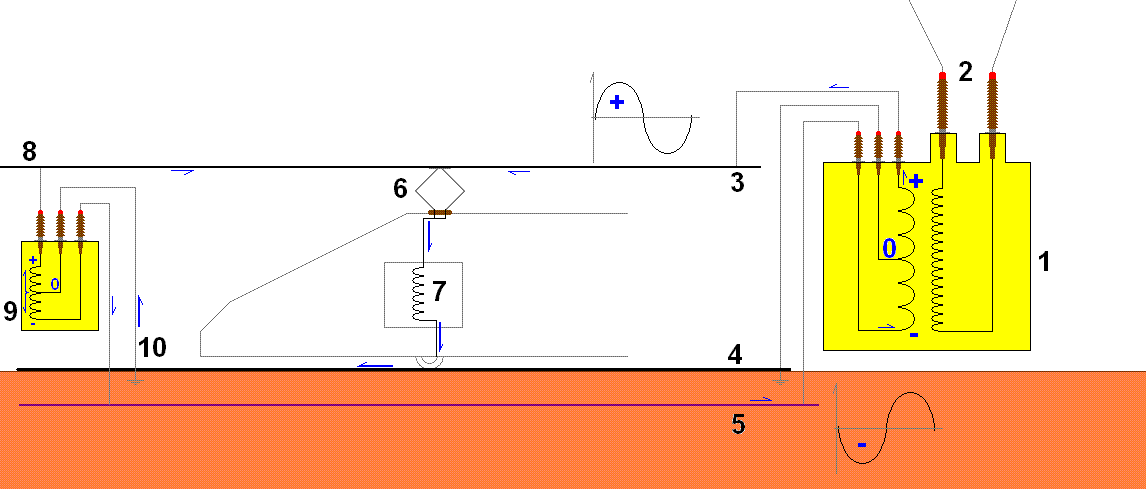 Components of a dual-voltage electrified rail system. Supply transformer (center-tapped output) Power supply Overhead line (messenger & contact wires) Running rail Feeder line Pantograph Locomotive transformer Overhead line Autotransformer (paralleling station) Running rail